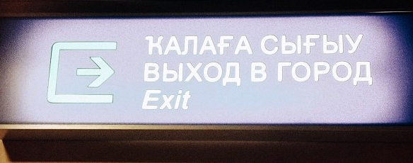 Inscription "Exit to the city" in the Ufa International Airport on Bashkir, Russian and English languages.